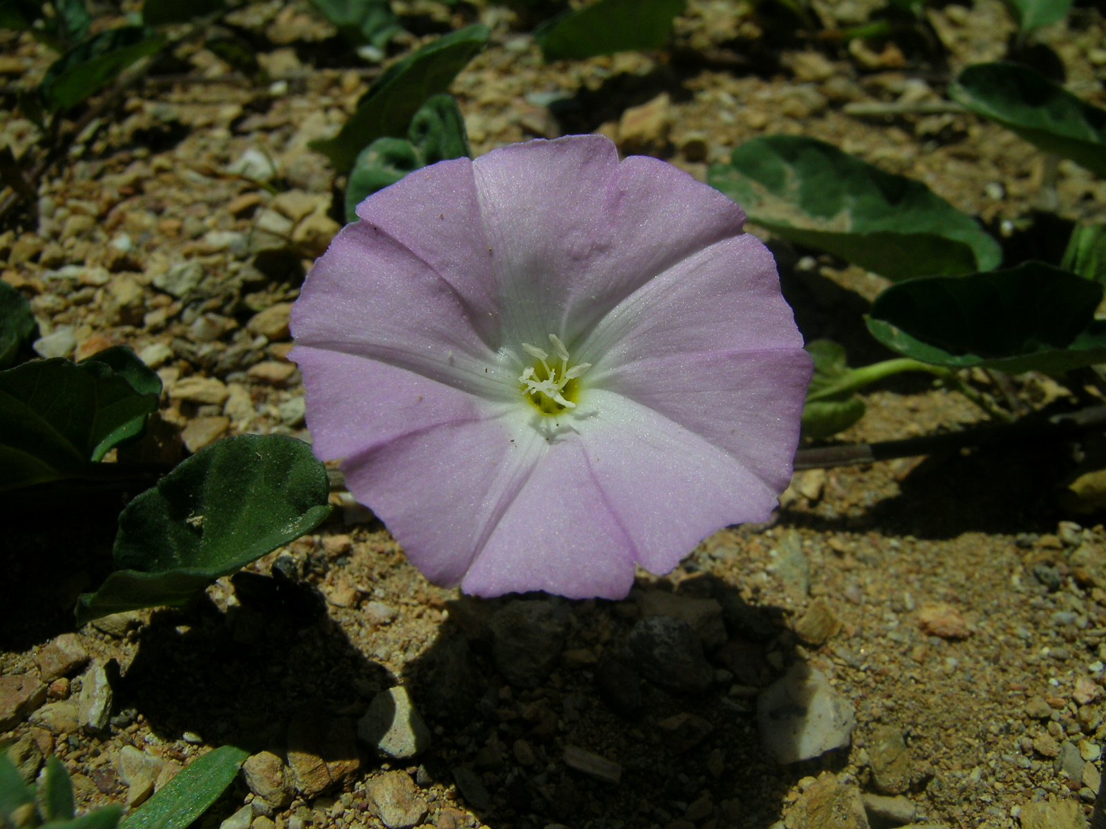 Native yearlong-green, perennial, moderately to densely hairy herb. Stems are trailing or twining. Leaves are variable; linear to ovate, 1-6.5 cm long, with lobes at the base. Flowers are funnel-shaped (like a miniature morning glory) and pink to purple-violet, with a white throat. Flowering is year-round, but mainly from spring to mid-summer. Found in low-input grasslands, woodlands and other open areas, such as tracks and after fire. Native biodiversity. No management information is available.